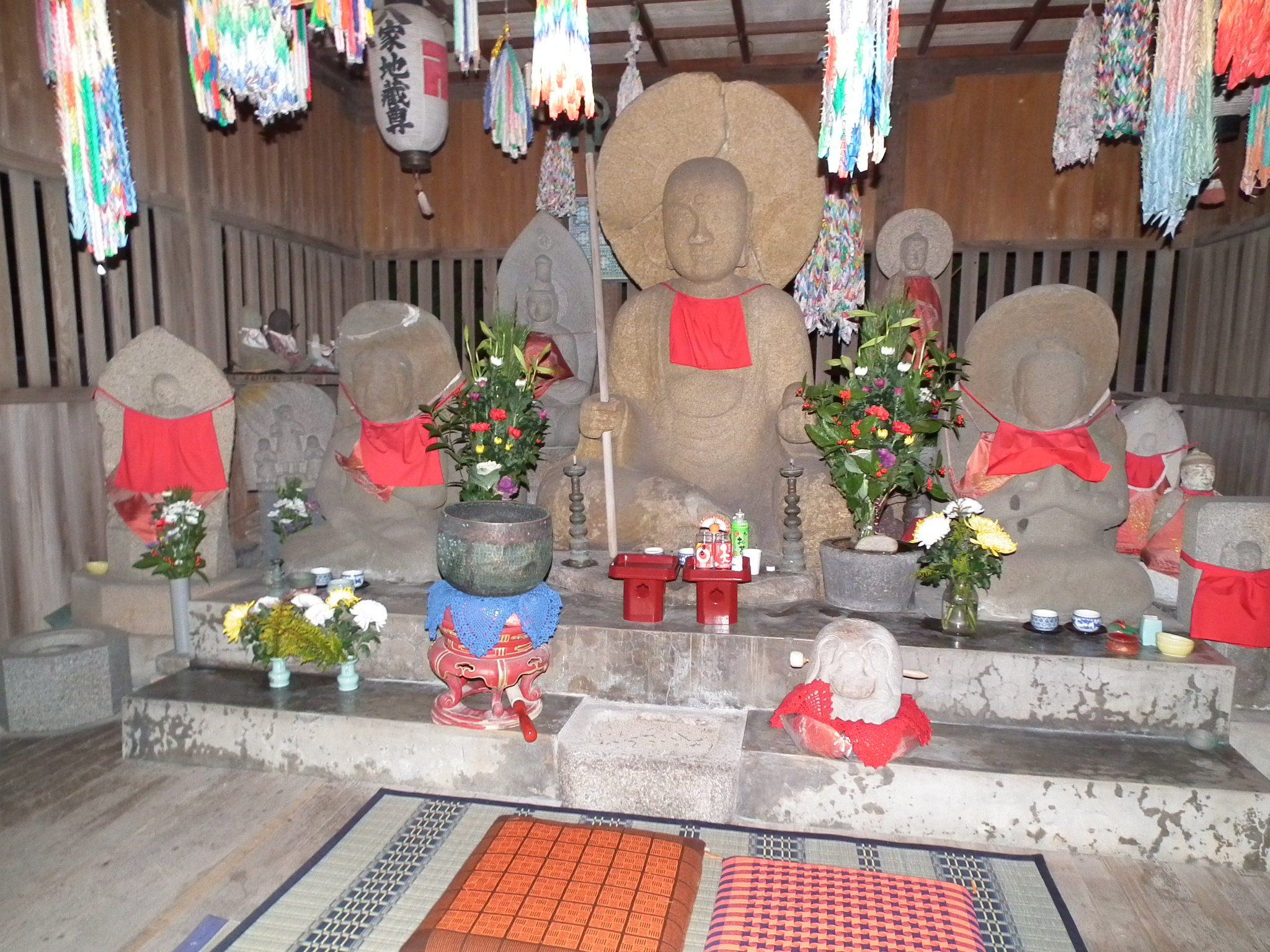 Yaka-jizo